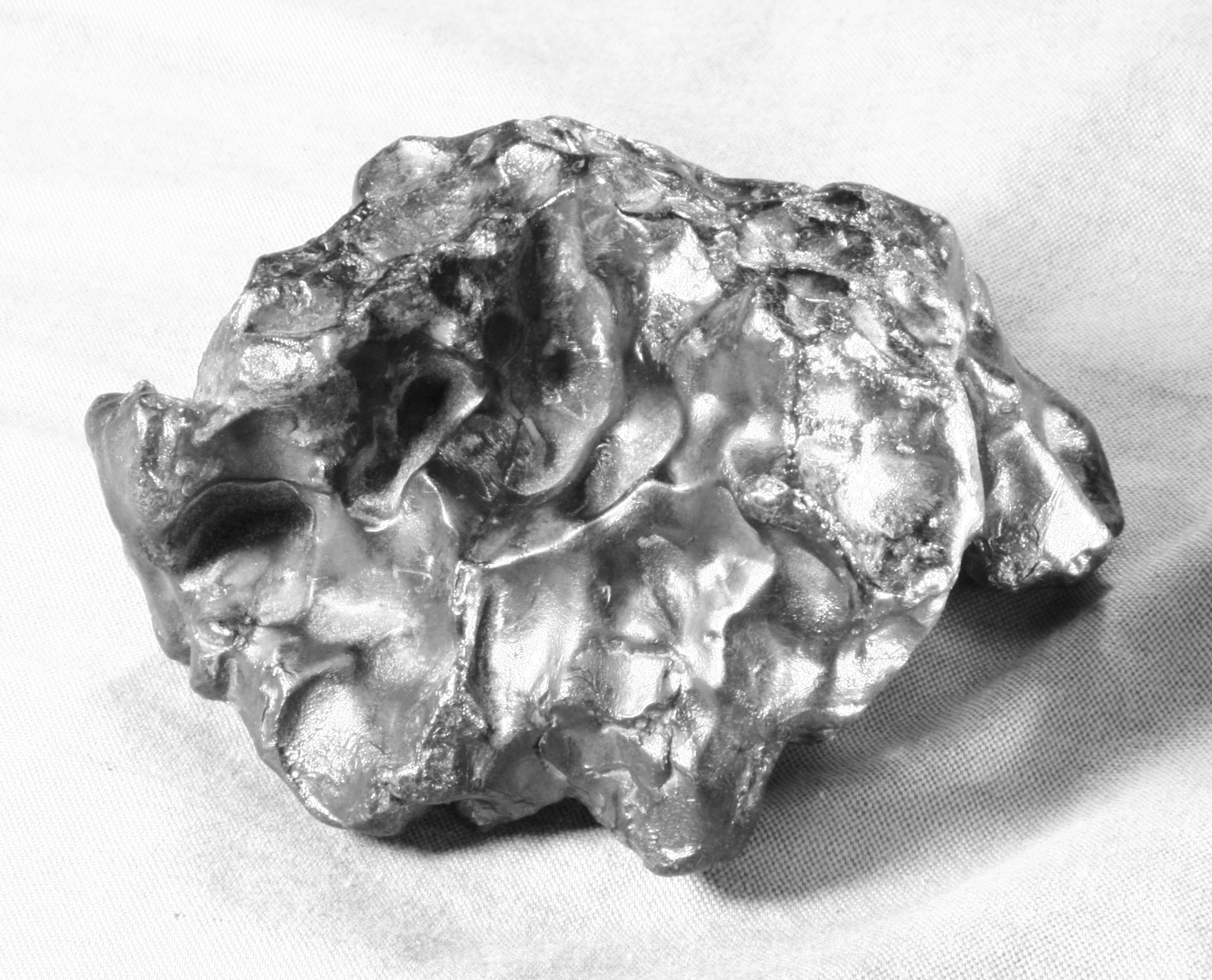 Sikhote Alin: "A meteorite from my collection."